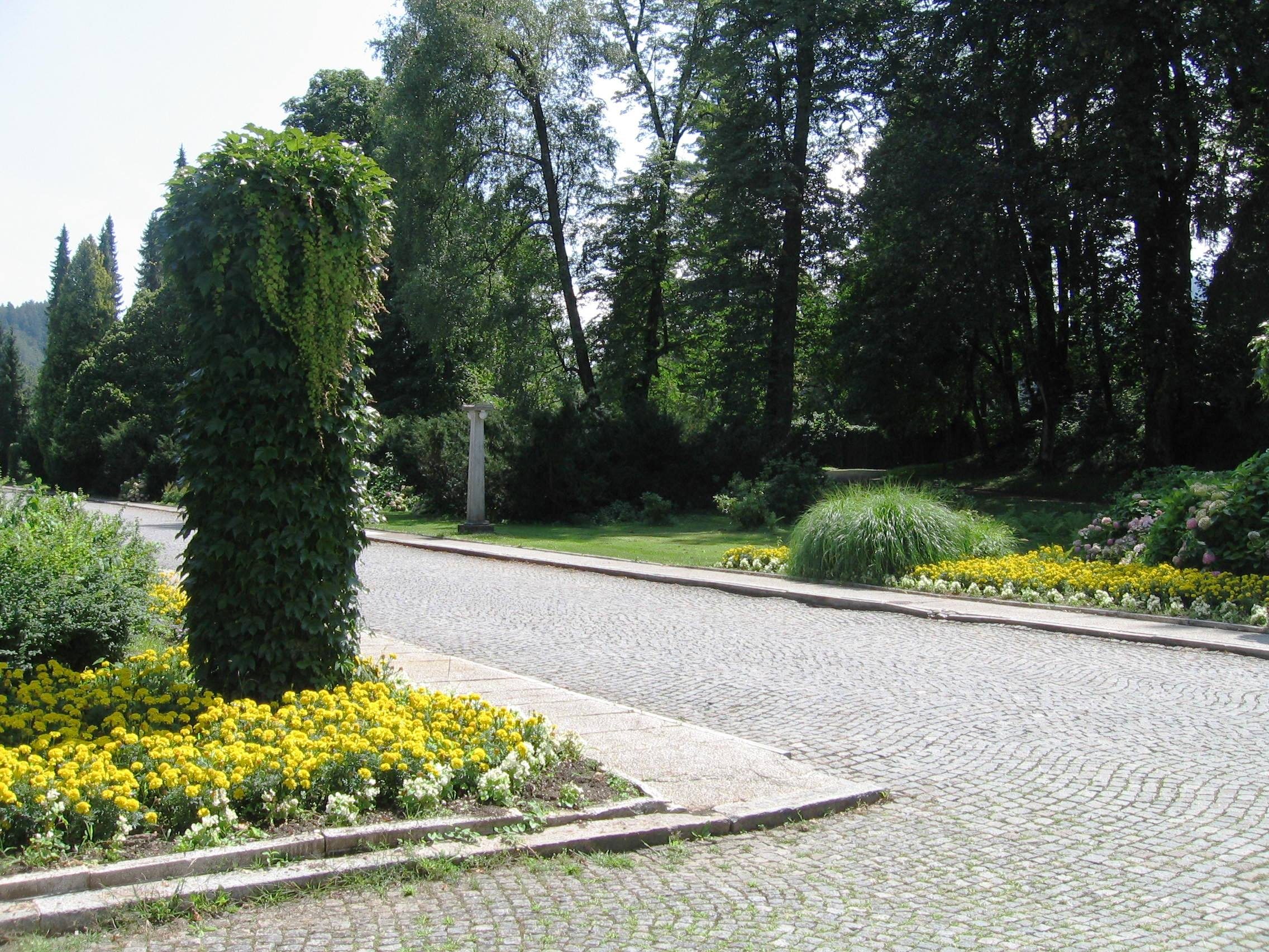 Villa Bled, driveway, Bled, Slovenia